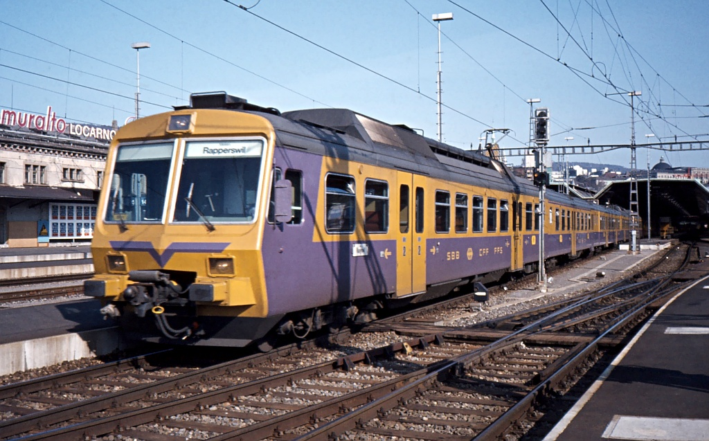 Swiss Federal Railways (SBB) multiple unit prototype serie RABDe 8/16 with the nickname Chiquita in original color style at Zurich mainstation in Switzerland.